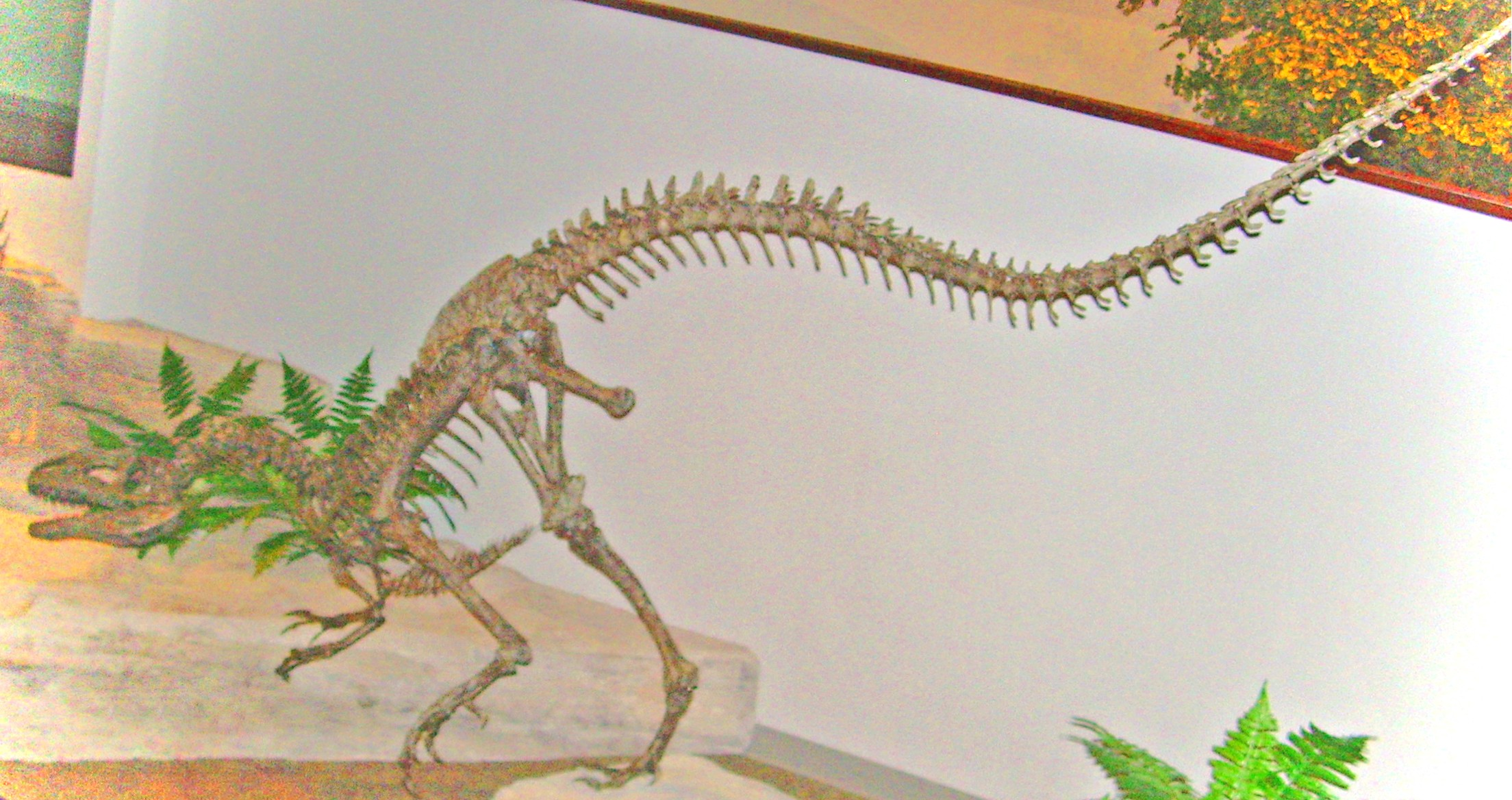 Photograph of a fossil cast of a juvenile Allosaurus (A. jimmadseni, DINO 11541) taken at the North American Museum of Ancient Life.